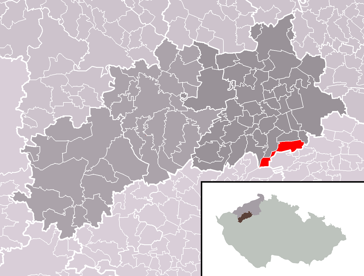 Location of Žerotín u Panenského Týnce Katastralgemeinde within Louny District and administrative area of Louny as a Municipality with Extended Competence.